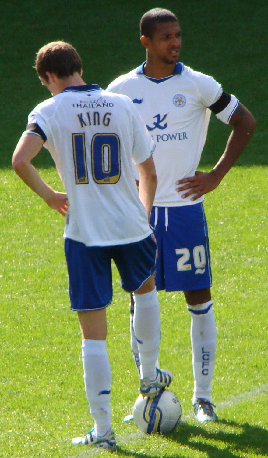 25/09/11 Cardiff V Leicester, Championship, Cardiff City Stadium, Cardiff, Wales [Image cropped from original]